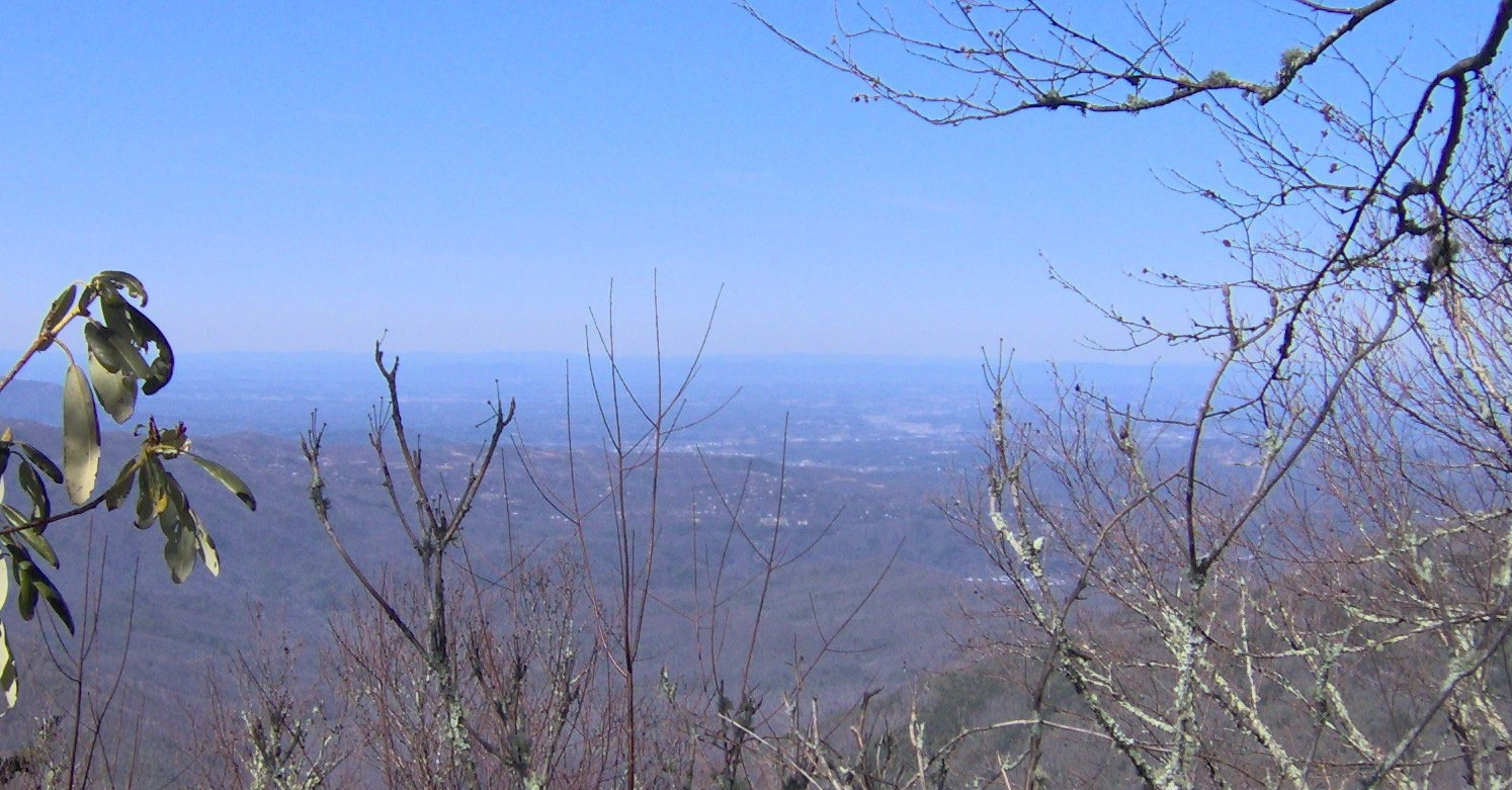 Sevier County, Tennessee, viewed from a break in the foliage along the Sugarland Mountain Trail atop Sugarland Mountain, in the Great Smoky Mountains of the southeastern United States. This break in the foliage is one of several along the backbone between the mountain northern peak and the Rough Creek Trail junction.